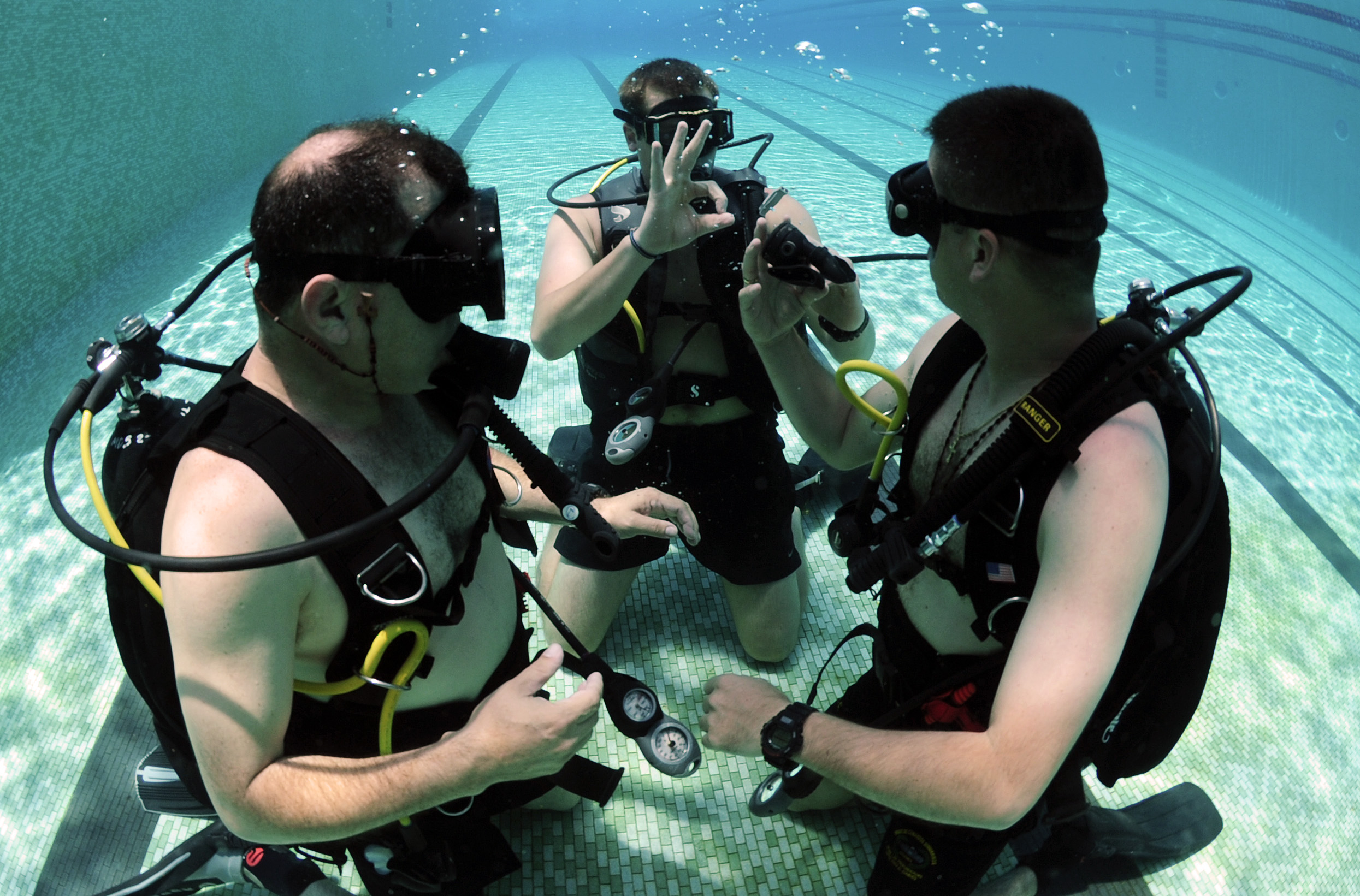 Panama City, Panama (Aug. 17, 2010) Navy Diver 2nd Class David Orme checks the status of Colombian divers, Capt. Camilo Cifuentez, right, and Chief Technician Aurelio Alonso, during underwater gear familiarization. Company 2-6 of Mobile Diving and Salvage Unit (MDSU) 2 is participating in the Navy Diver-Southern Partnership Station exercise, a multinational partnership engagement designed to increase interoperability and partner nation capacity through diving operations. (U.S. Navy photo by Mass Communication Specialist 1st Class Jayme Pastoric/Released)